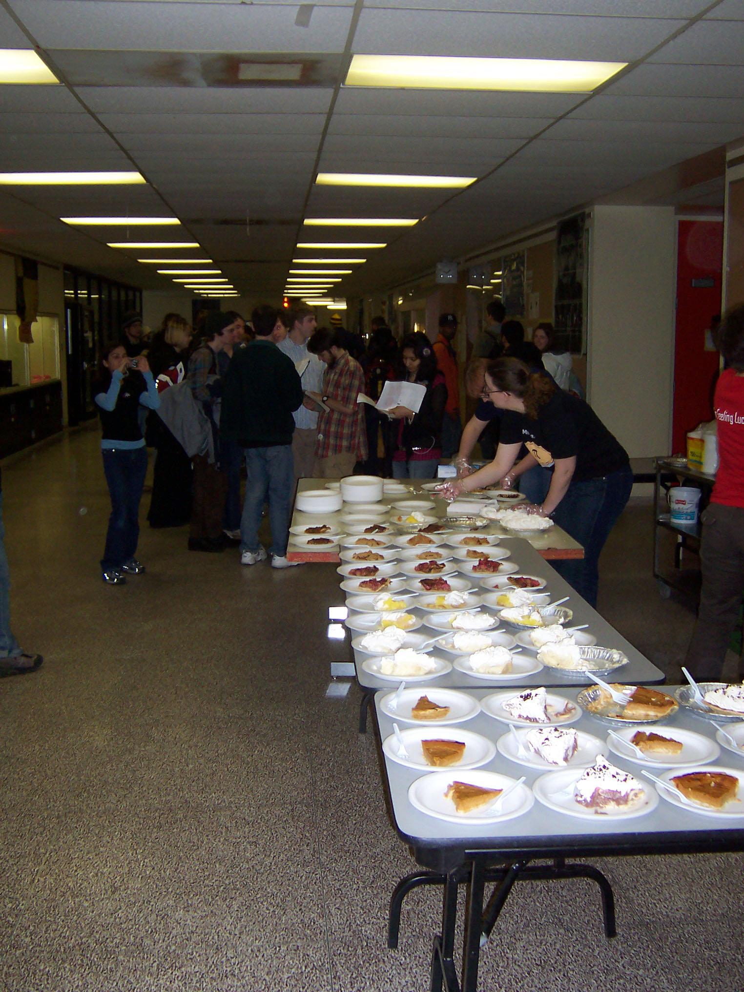 Taken by me on March 14, 2007 at the University of Waterloo on the 3rd floor of the Math & Computing Building.